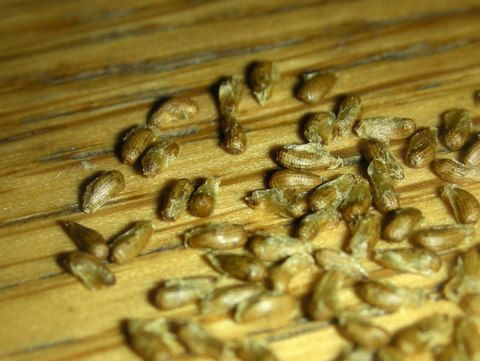 Turnera ulmifolia seeds